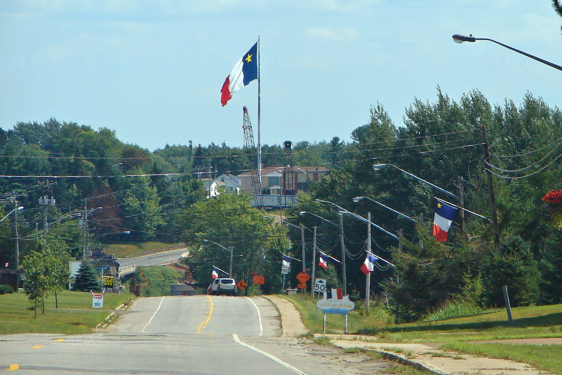 Saint-Louis-de-Kent, New Brunswick, Canada